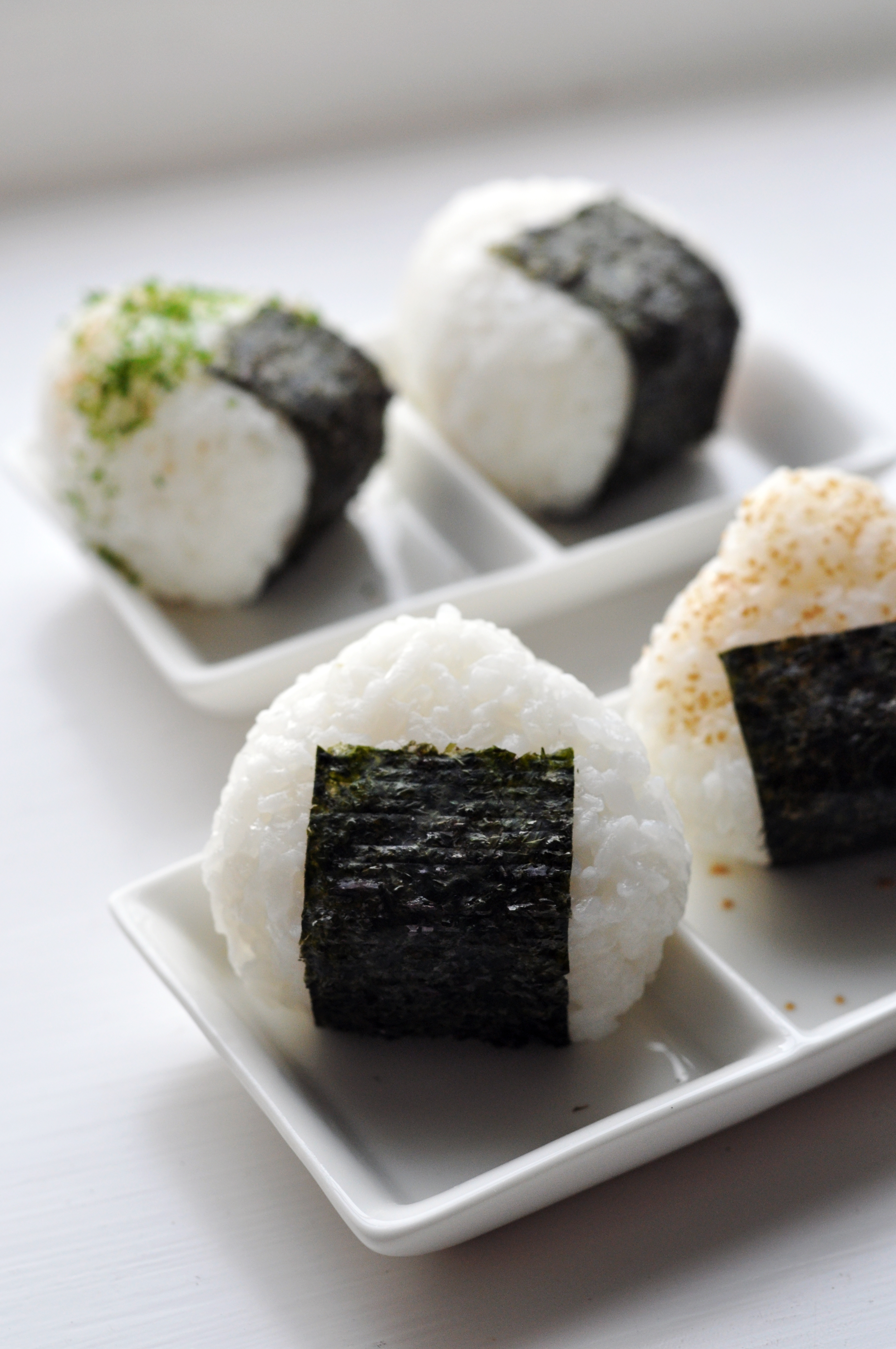 Home made Japanese rice balls (onigiri) with dried seaweed (nori)